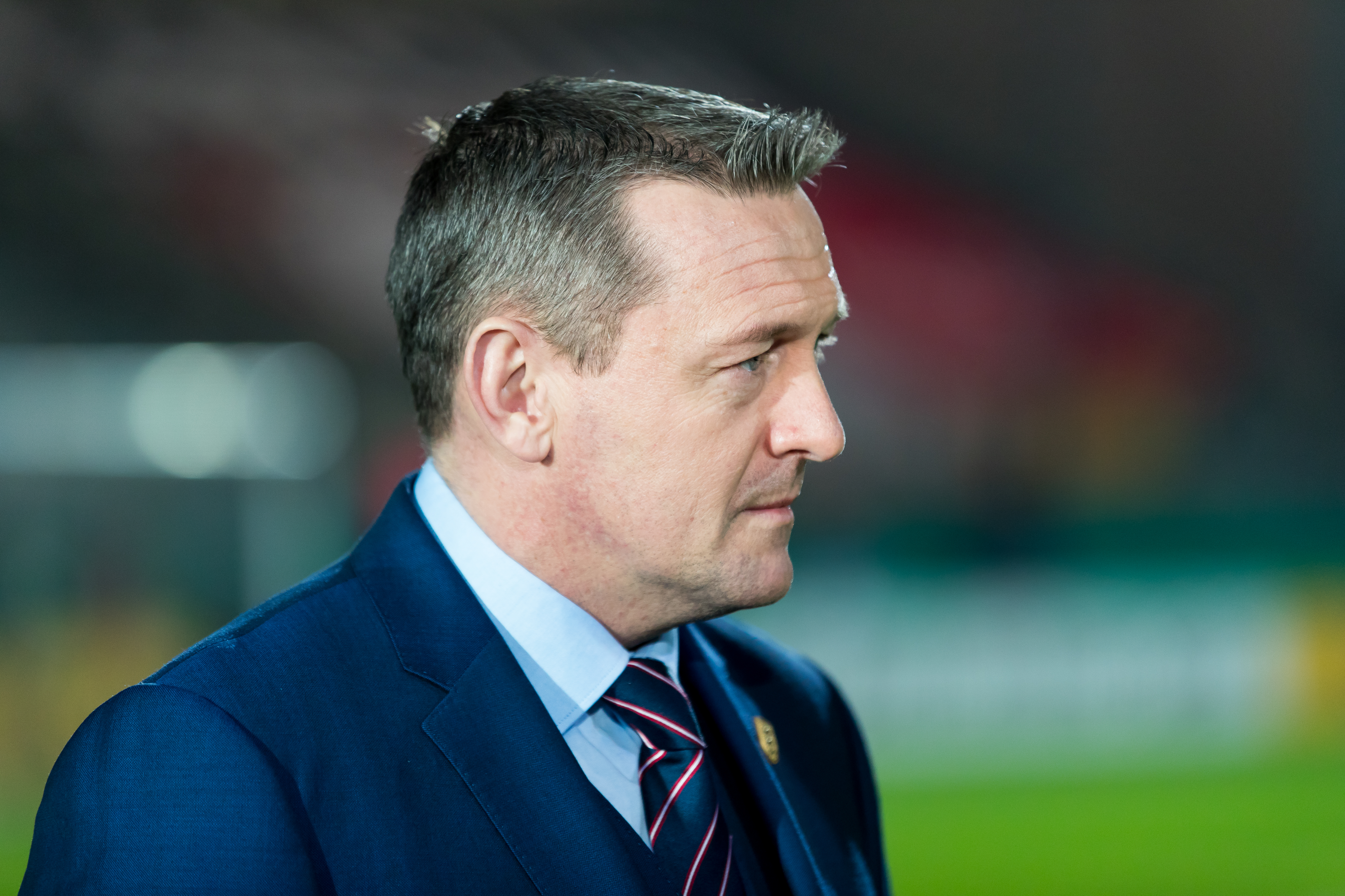 Football U21 Germany vs England (1:0) Team Germany 12 Julian Pollersbeck (1. FC Kaiserslautern) 1 Marvin Schwäbe (Dynamo Dresden) 23 Odisseas Vlachodimos (Panathinaikos Athen) 16 Kevin Akpoguma (Fortuna Düsseldorf) 3 Yannick Gerhardt (VfL Wolfsburg) 5 Matthias Ginter (Borussia Dortmund) 22 Benjamin Henrichs (Bayer 04 Leverkusen) 15 Marc-Oliver Kempf (SC Freiburg) 4 Niklas Stark (Hertha BSC) 13 Jeremy Toljan (1899 Hoffenheim) 2 Mitchell Weiser (Hertha BSC) 18 Nadiem Amiri (1899 Hoffenheim) 10 Maximilian Arnold (VfL Wolfsburg) 25 Hany Mukhtar (Brøndby IF) 7 Max Meyer (FC Schalke 04) 19 Janik Haberer (SC Freiburg) 21 Gideon Jung (Hamburger SV) 20 Levin Öztunali (1. FSV Mainz 05) 17 Maximilian Philipp (SC Freiburg) 9 Davie Selke (RB Leipzig) 27 Thilo Kehrer (FC Schalke 04) Team England 1 Jordan Pickford (Sunderland) 2 Mason Holgate (Everton) 13 Angus Gunn (Manchester City) 21 Christian Walton (Brighton) 16 Kortney Hause (Wolverhampton) 5 Jack Stephens (Southampton) 15 Rob Holding (Arsenal) 12 Joe Gomez (Liverpool) 3 Ben Chilwell (Leicester City) 6 Alfie Mawson (Swansea City) 22 Sam McQueen (Southampton) 4 Nathaniel Chalobah (Chelsea) 14 Will Hughes (Derby County) 20 Ruben Loftus-Cheek (Chelsea) 10 Lewis Baker (Vitesse Arnheim) 18 John Swift (Reading) 23 Jack Grealish (Aston Villa) 8 Harry Winks (Hotspur) 19 Cauley Woodrow (Fulham) 9 Tammy Abraham (Bristol City) 17 Solly March (Brighton) 11 Jacob Murphy (Norwich) during Fussball U21 Deutschland vs England at Brita-Arena, Wiesbaden, Hessen, Germany on 2017-03-24, Photo: Sven Mandel